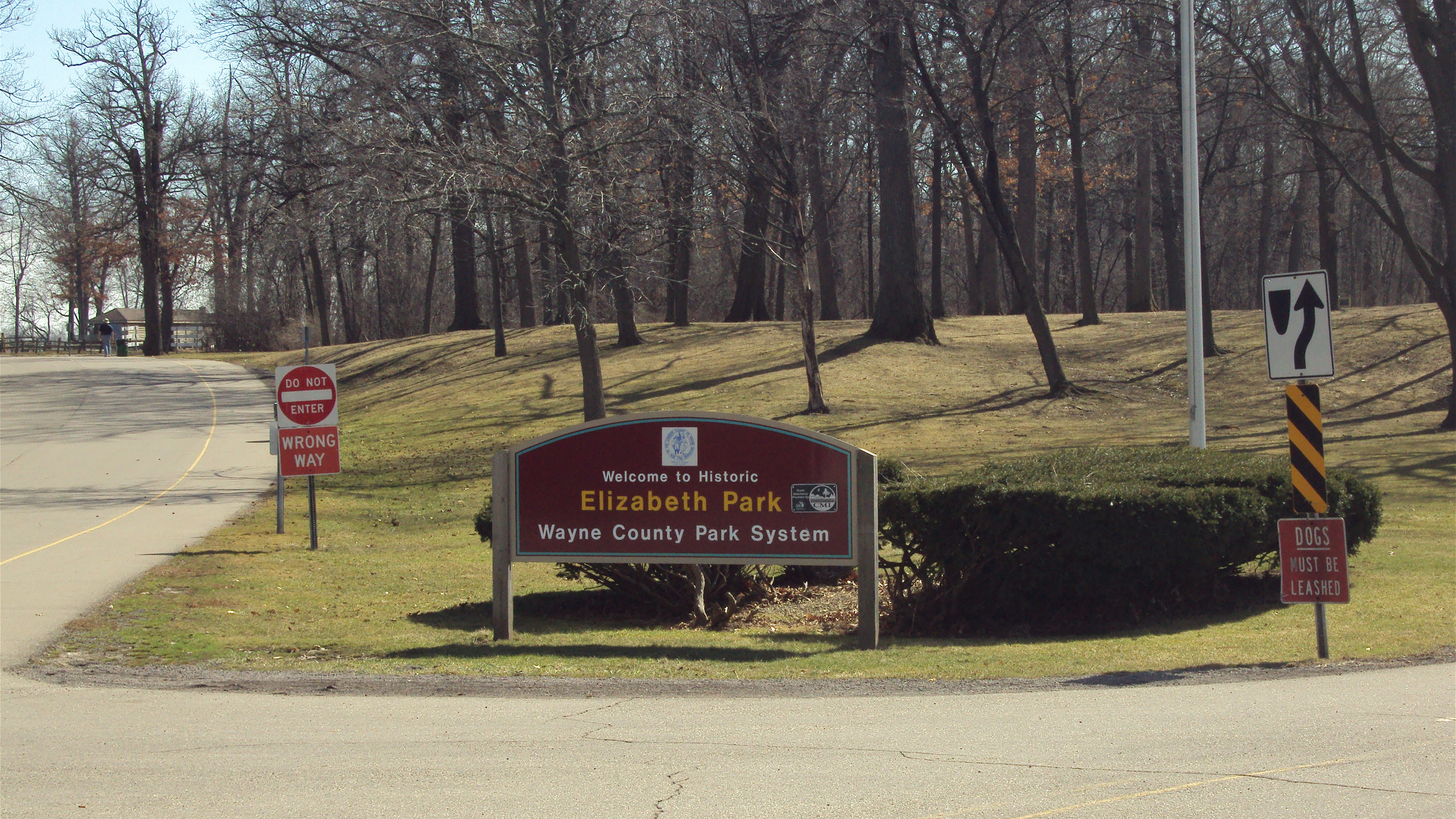 Entrance to Elizabeth Park.